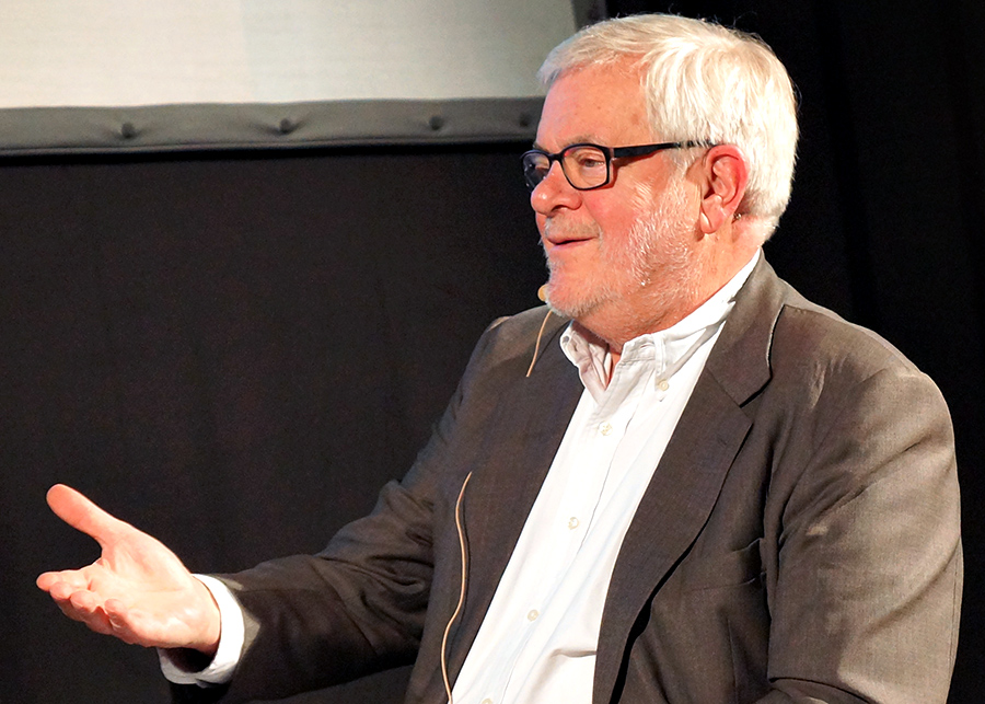 Frank Esmann - Danish journalist og forfatter at the Copenhagen Book Fair "BogForum 2014", Copenhagen, Denmark